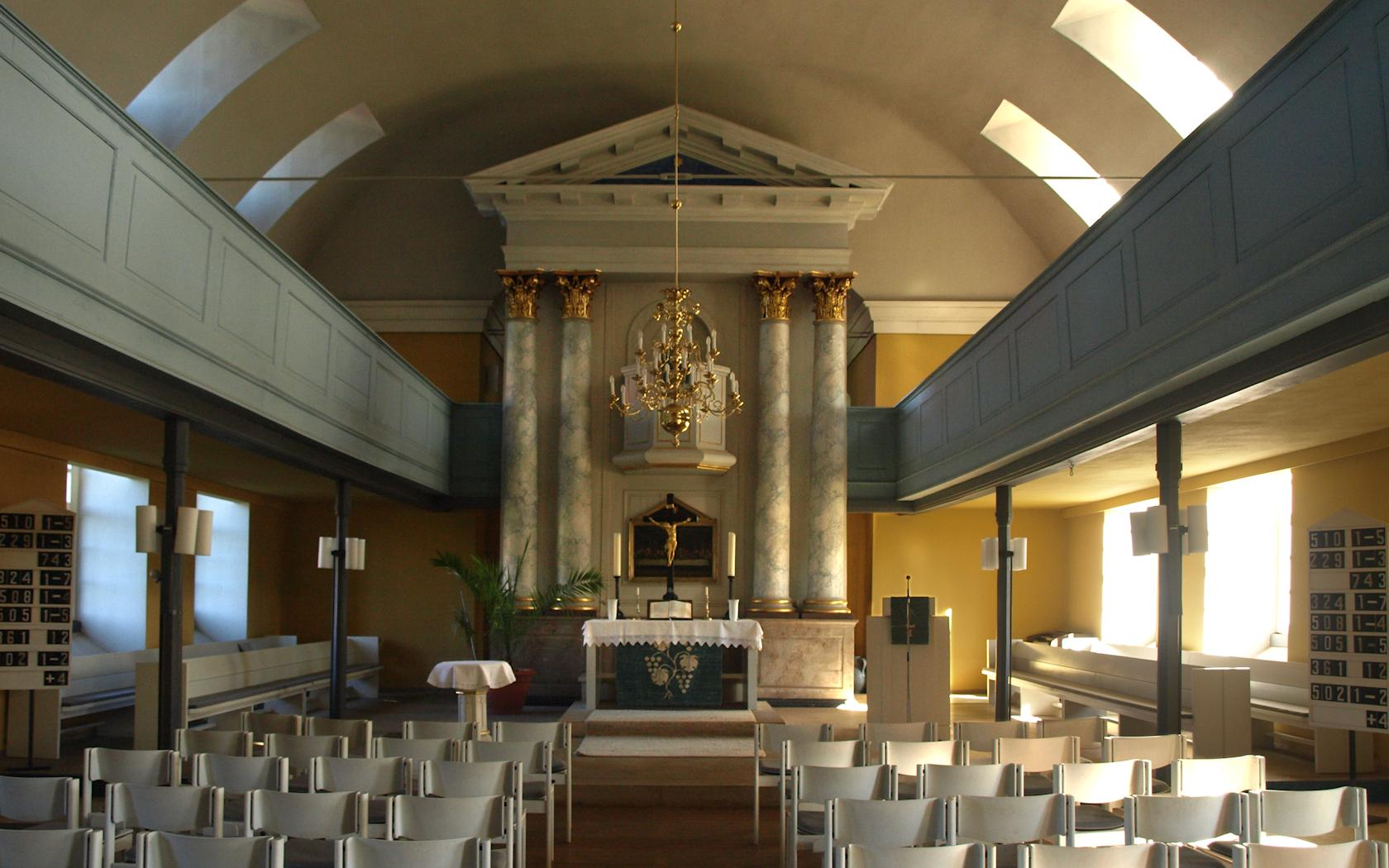 Intschede (Lower Saxony, Germany), Interior of the church, photo 2011